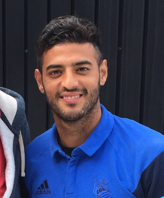 Carlos Vela during a friendly pre-match against Sporting Gijon